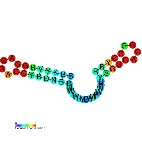 Secondary structure image for Mini-ykkC non coding RNA (RF01068). Nucleotide colouring indicates sequence conservation between the members of this family.